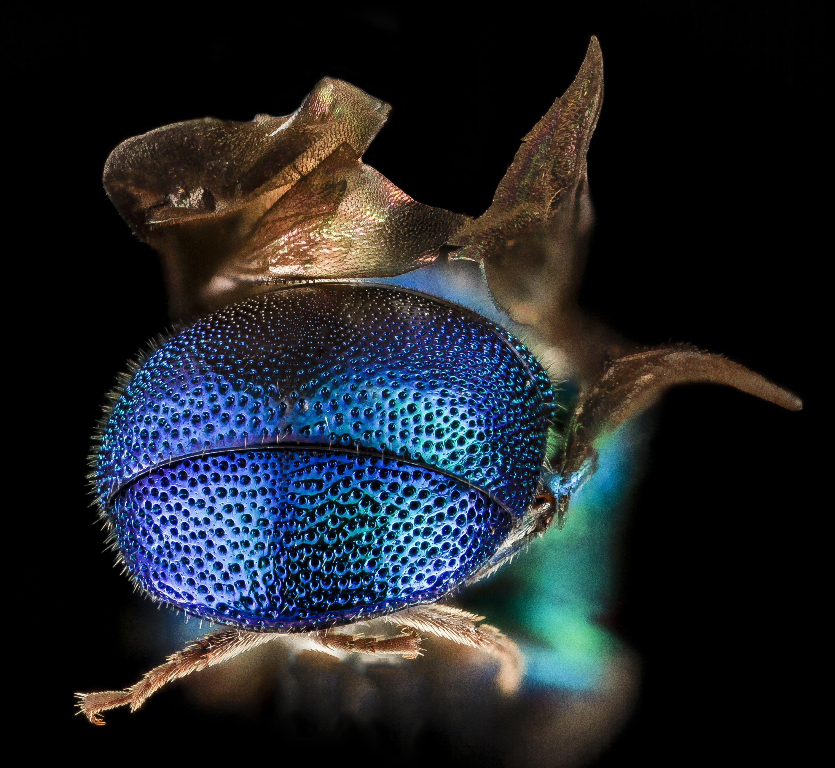 Another Chrysidid wasp (cuckoo wasp) from the Hart-Miller Dredge Spoil site in Baltimore Harbor, collected by Eugene Scarpulla, photographed by Brooke Alexander Identification by Lynn Kimsey Canon Mark II 5D, Zerene Stacker, Stackshot Sled, 65mm Canon MP-E 1-5X macro lens, Twin Macro Flash in Styrofoam Cooler, F5.0, ISO 100, Shutter Speed 200, link to a .pdf of our set up is located in our profile